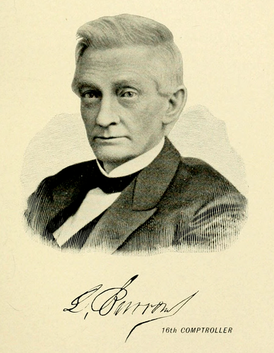 Lorenzo Burroughs, US Congressman, 1849-1853 Other information Originally from Roberts, James A.; _A Century in the Comptroller's Office, State of New York, 1797 to 1897_; Albany NY, James B. Lyon; 1897. Digitized by Richard J. Shiffer.